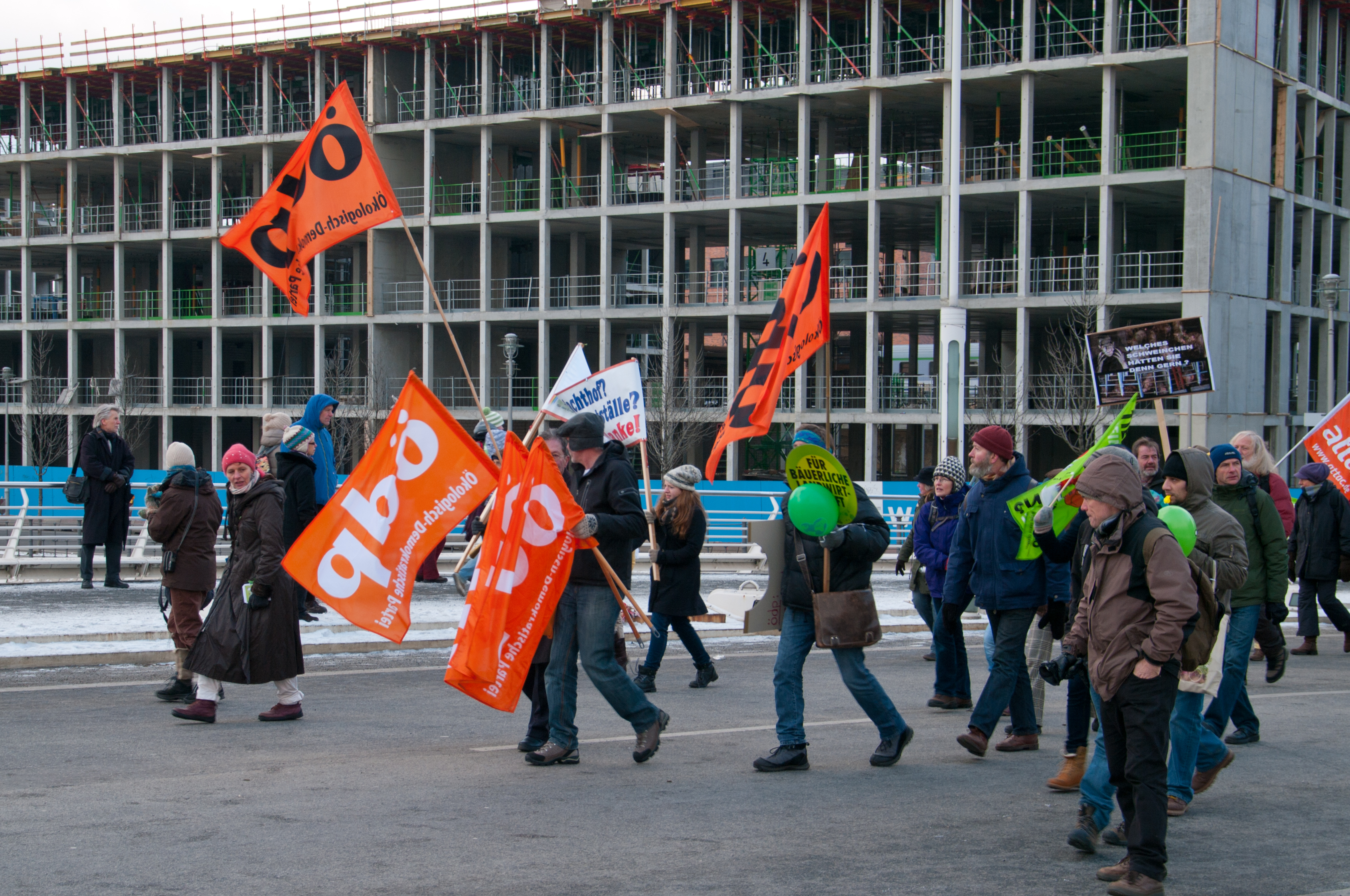 "Wir haben es satt!" (We are fed up) protest 2013.